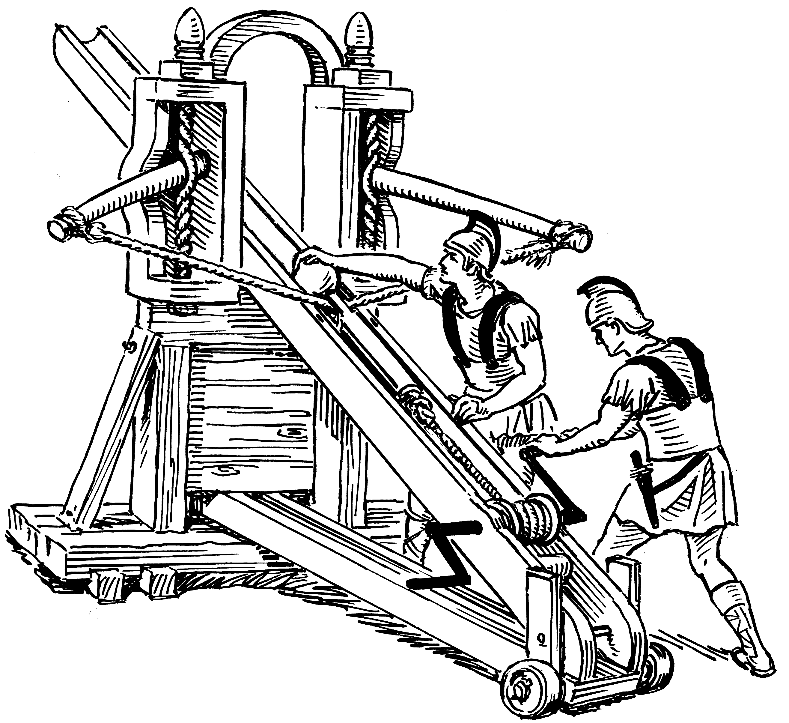 Ballista — military equipment of ancient Rome.